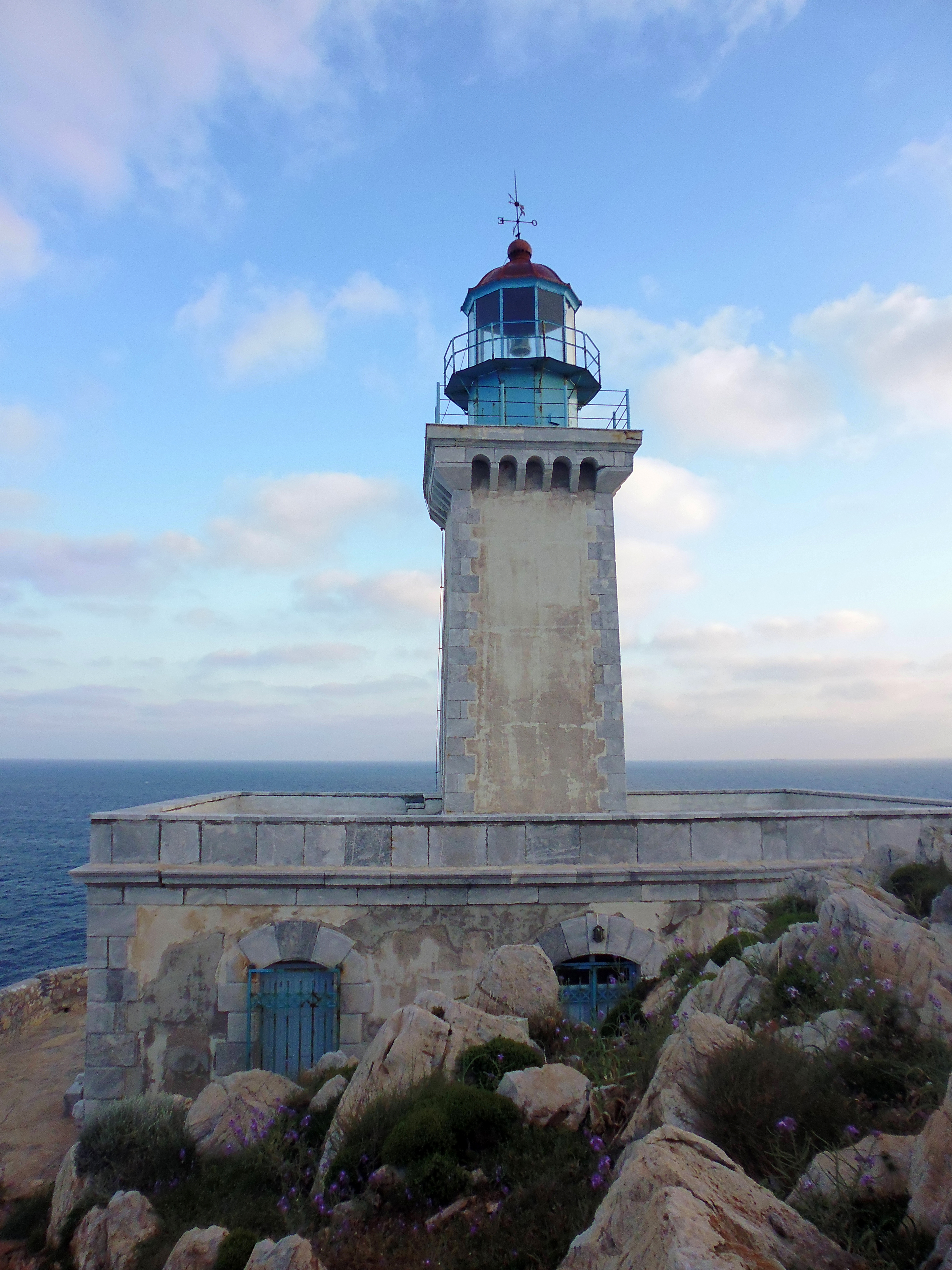 Lighthouse at Cape Tainaro (Mani)«Φάρος Ακρωτηρίου Ταίναρον»